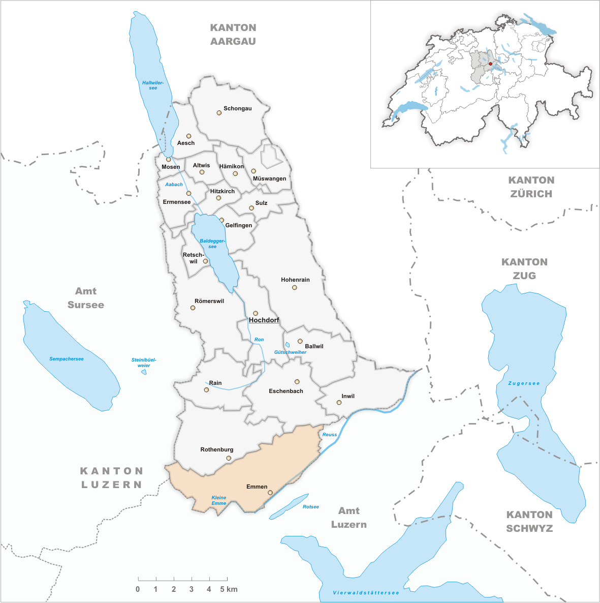 Municipality Emmen